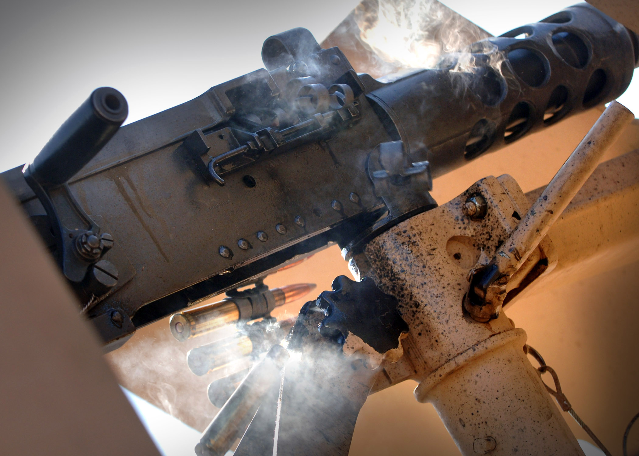 A 50 cal. builds up steam when the heat from the machine gun and lubricating oil combine, during a 5th Provisional Security Company 50 cal. qualification shot.